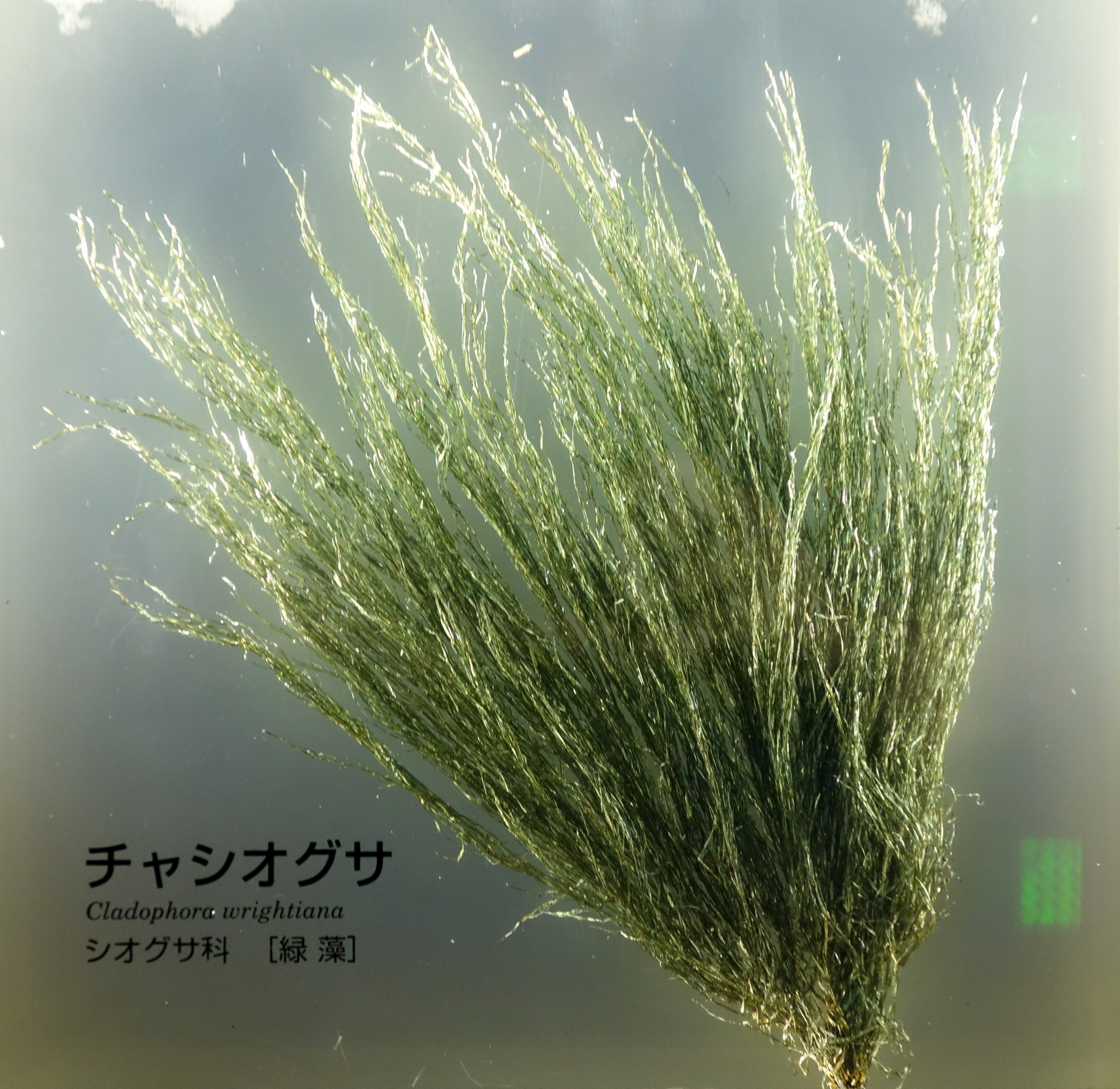 Exhibit in the National Museum of Nature and Science, Tokyo, Japan.